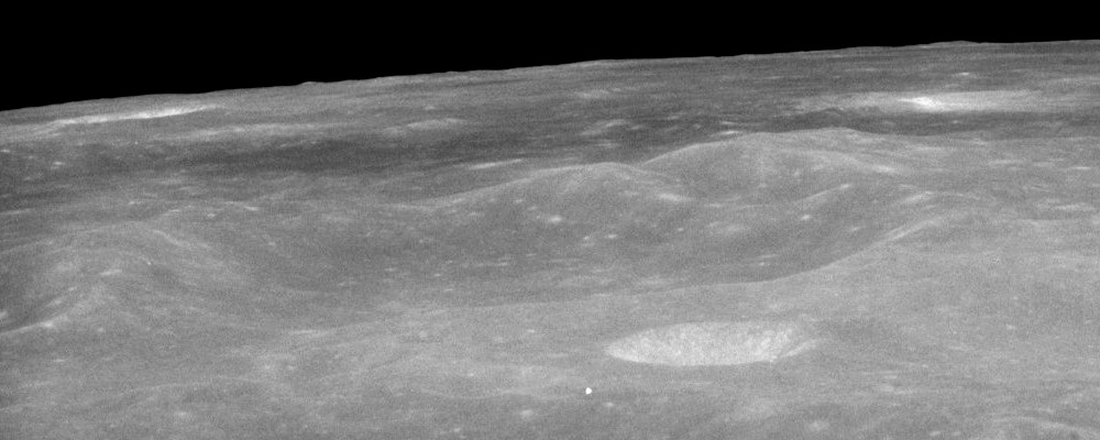 Oblique view of Purkyně crater on the moon, facing west, with Mare Smythii in the background.